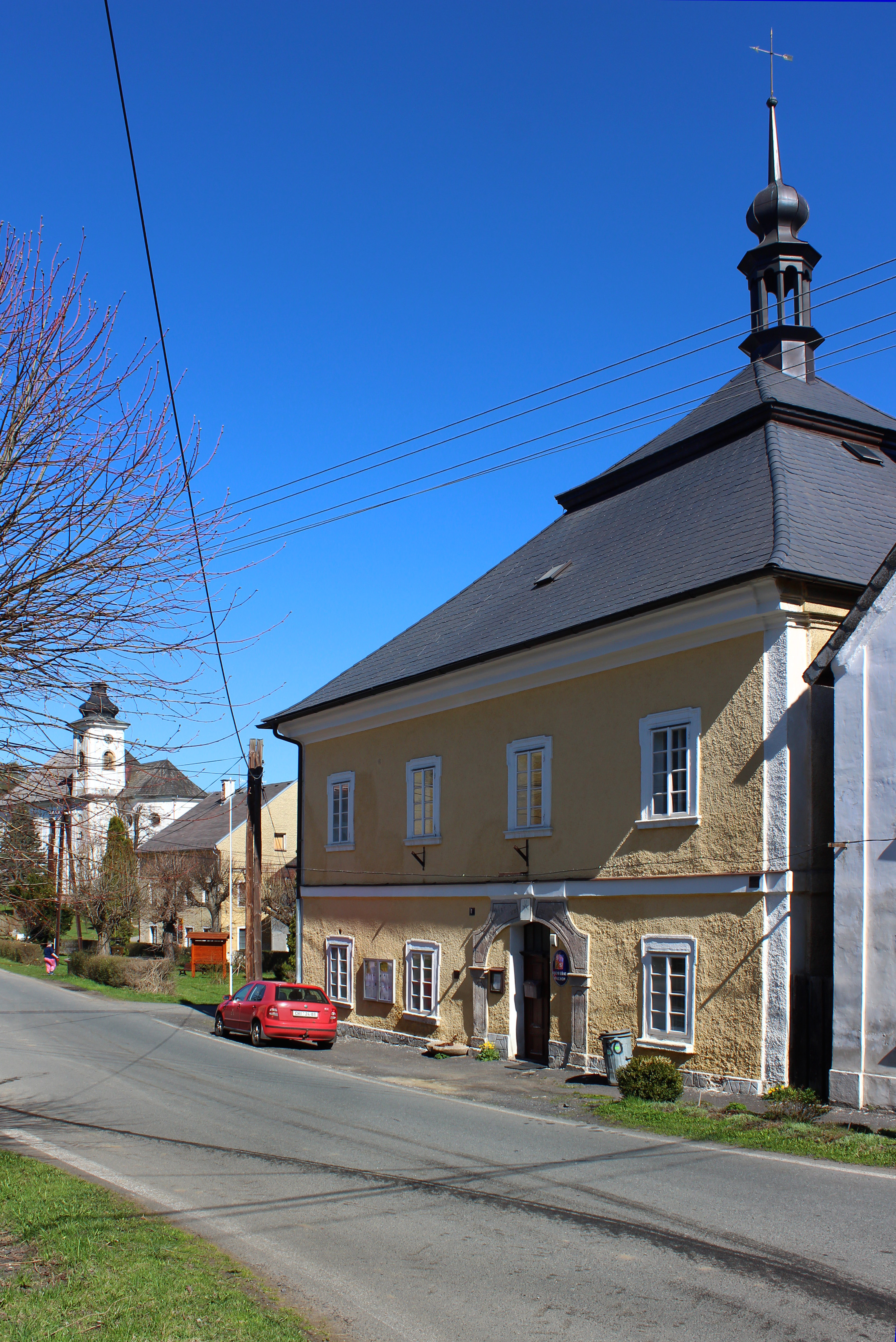 Town hall in Mnichov, Czech Republic